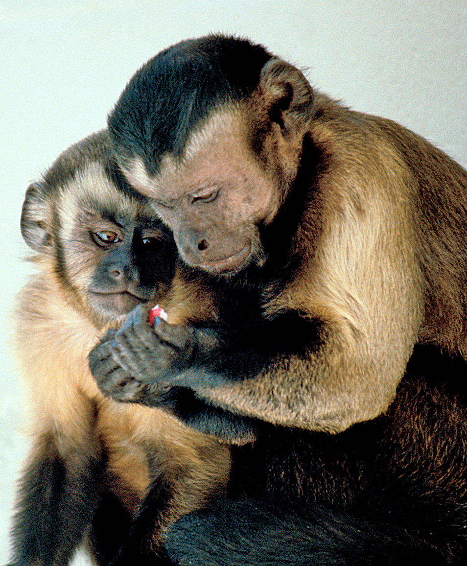 Cebus apella group. Capuchin Monkeys Sharing